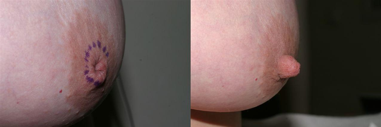 Before & After Inverted Nipple Repair